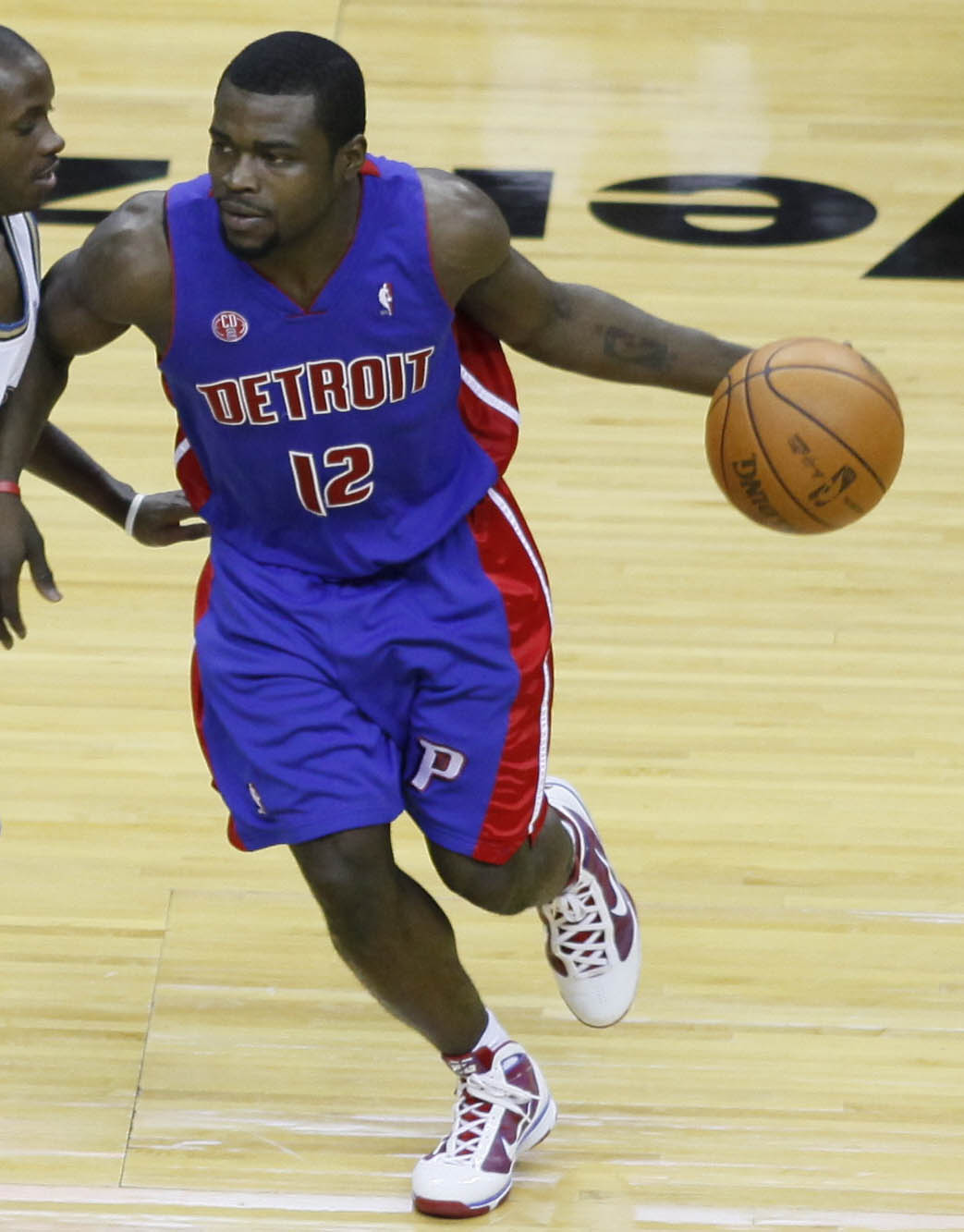 Will Bynum playing with the Detroit Pistons